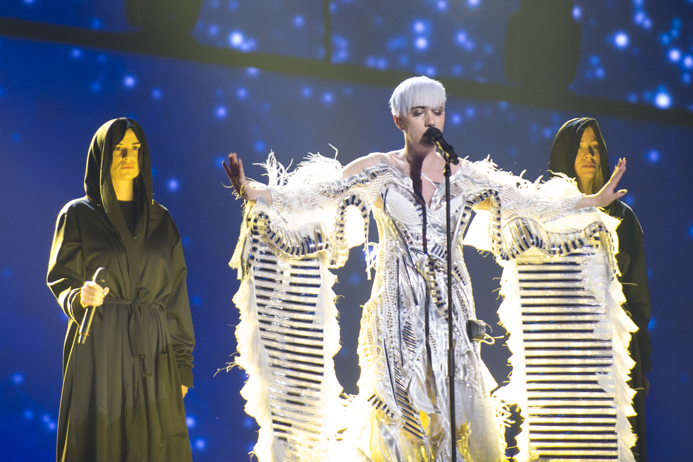 Nina Kraljić representing Croatia with the song "Lighthouse" during a rehearsal before the first semi final of the Eurovision Song Contest 2016 in Stockholm. (Help translate this text)